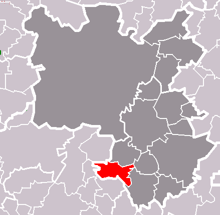 Location of Štěnovický Borek municipality within Plzeň-City District.